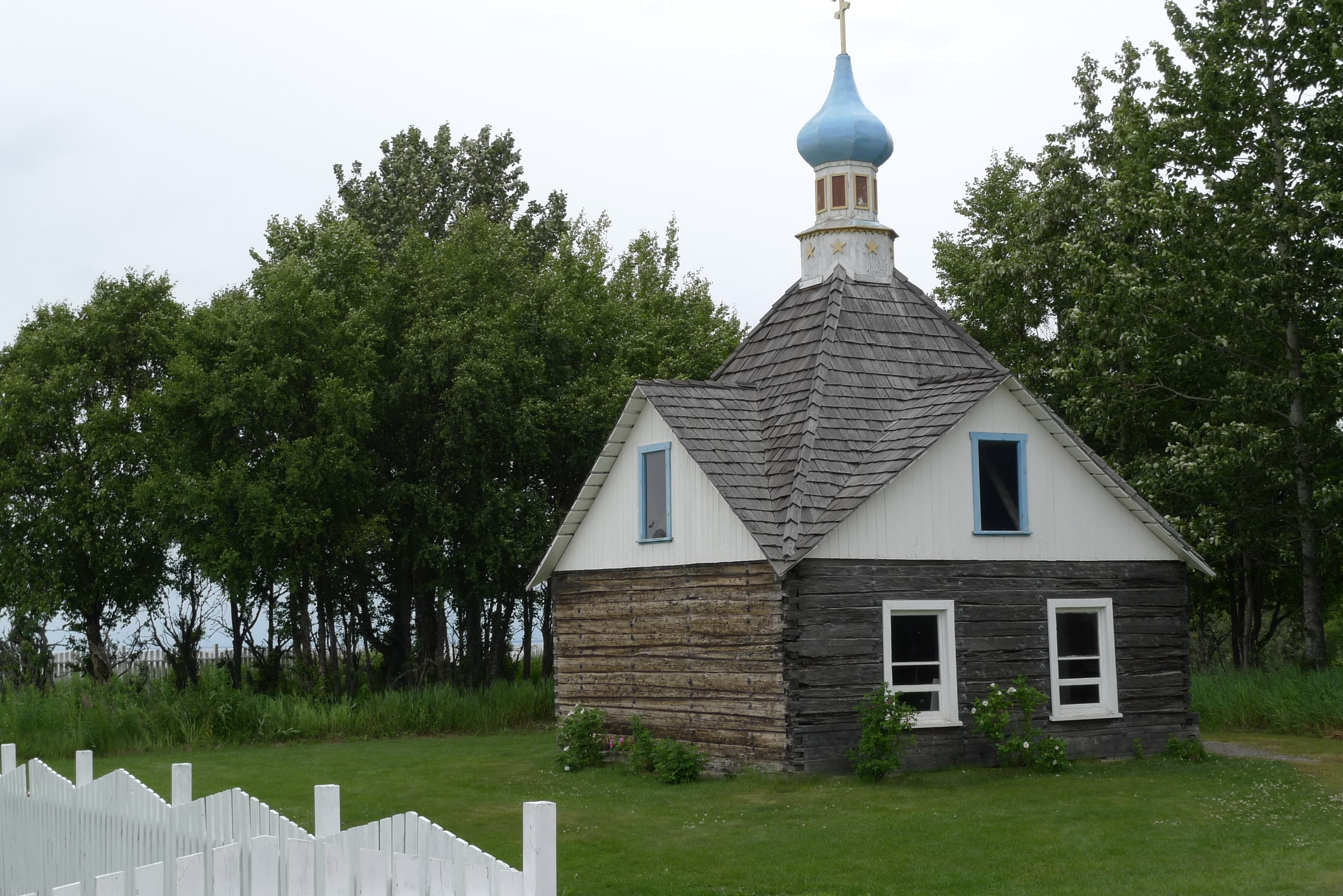 Saint Nicholas Memorial Chapel, Old Town Kenai, Alaska. The chapel was built in 1906 on the site of the original 1849 church in the northwest corner of the Russian fur trading post, Fort St. Nicholas. Its name honors both Fr. Nicolai, the first priest in Kenai, and St. Nicholas, Bishop of Myra. Father Nicolai (Makary Ivanov), the first orthodox priest in Kenai, who introduced small pox vaccination, saving the lives of hundreds of Dena'ina. With the aid of his two assistants, Father Nikolai was responsible for bringing the smallpox vaccine to the Kenai Peninsula and vaccinating many people in the fight against this deadly disease. On December 19, St. Nicholas Day, a memorial dedication or "moleiben" is held to remember this beloved priest and his assistants.